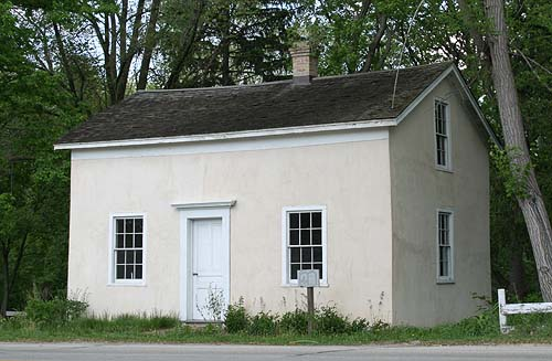 The Isham Day House, a National Registered Historic Place, in Mequon, Wisconsin.